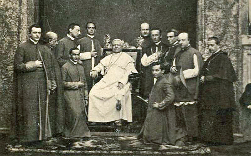 Pope Pius IX surrounded by clergy members of the Papal Court.